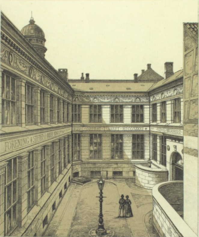 The courtyard of Bikubens new building in the 1880s.